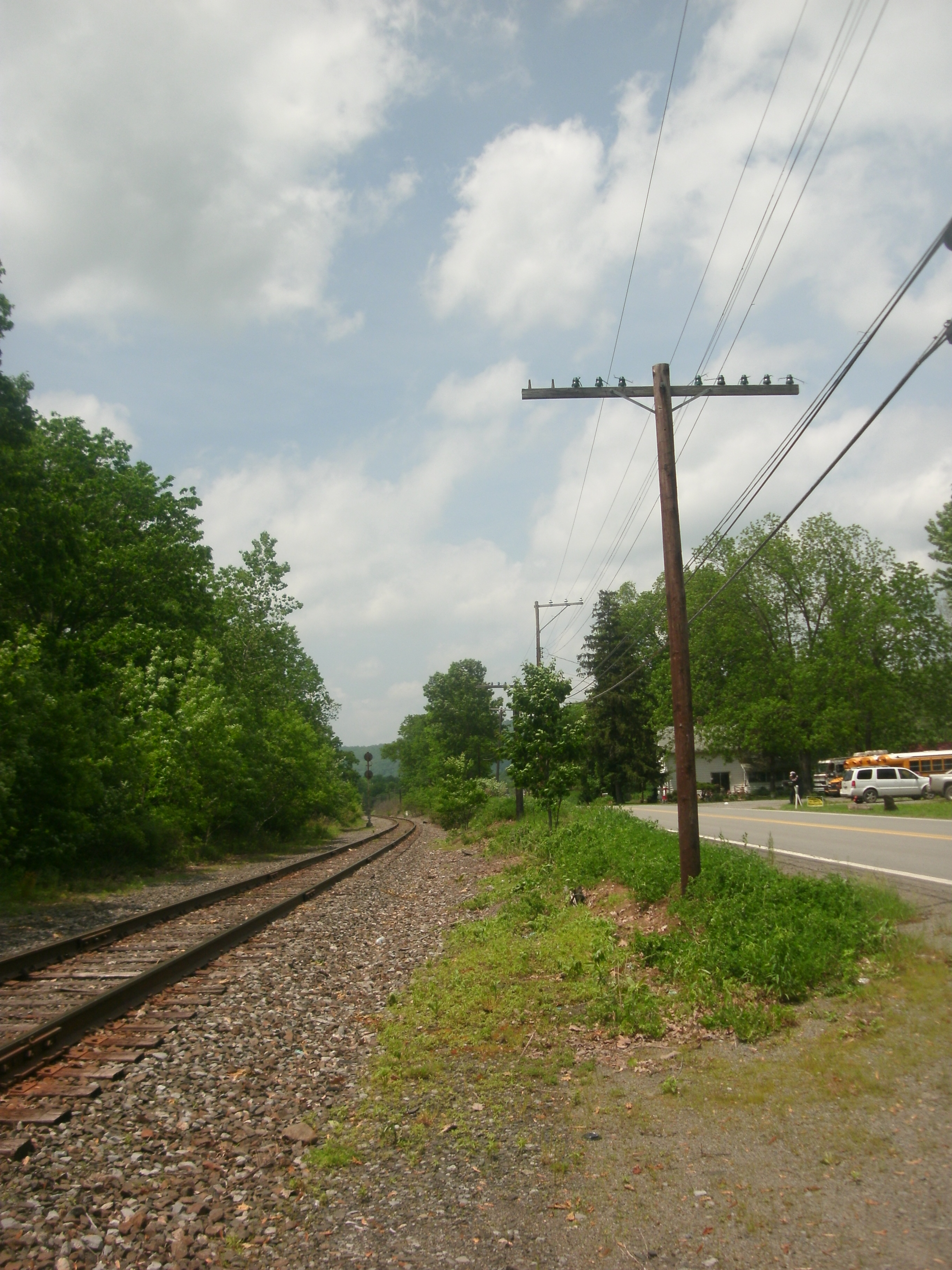 Pennsylvania Route 171 is visible to the right and the former Erie Railroad's Susquehanna Division main line tracks (formerly two) are visible to the left in Hickory Grove, Pennsylvania.